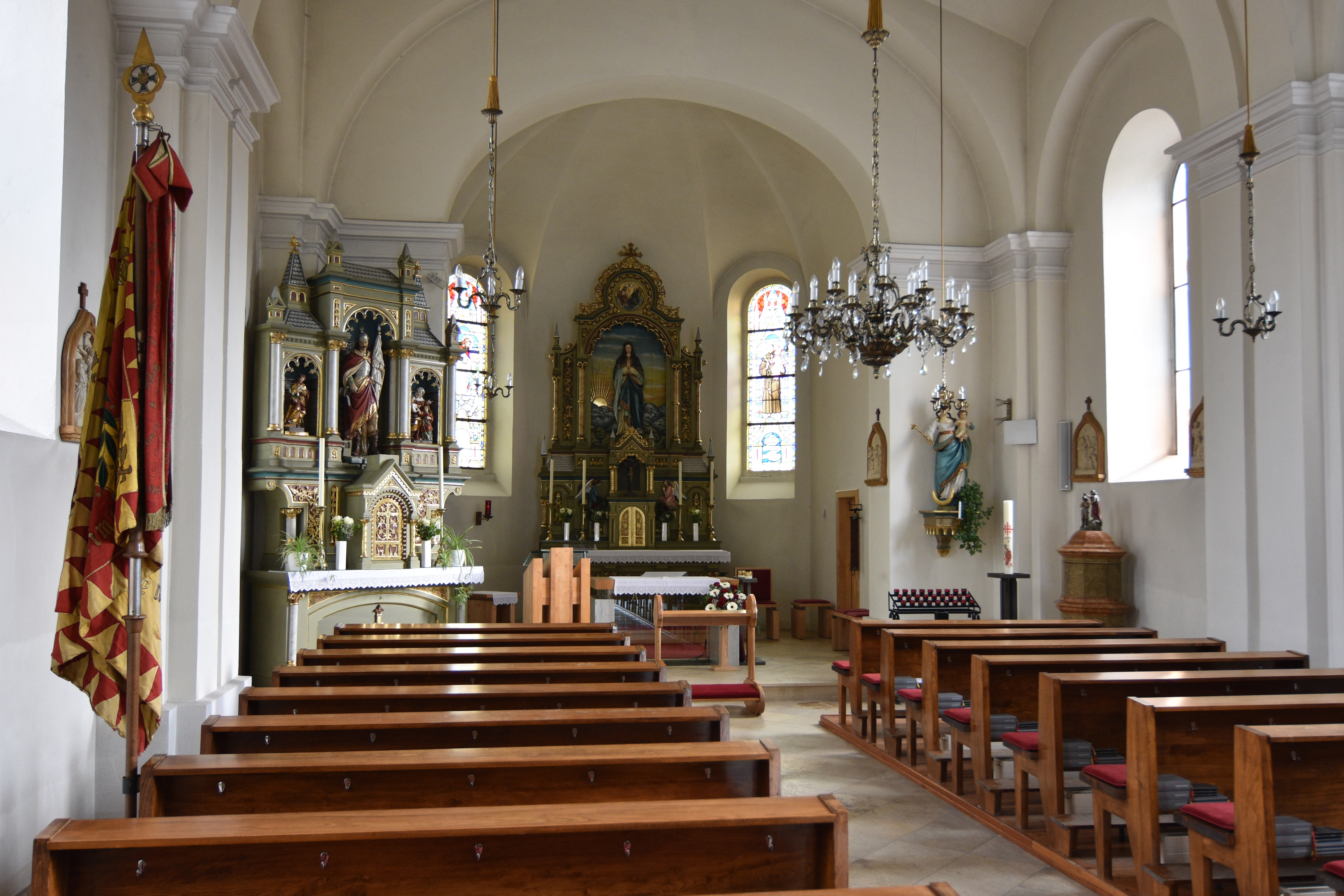 Church Deutsch Tschantschendorf - Interior